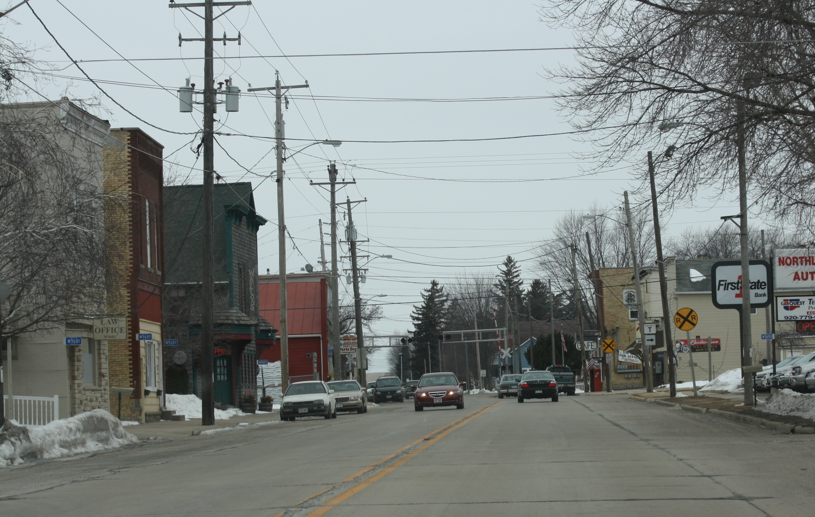 Looking west at downtown Dale (community), Wisconsin on Wisconsin Highway 96.